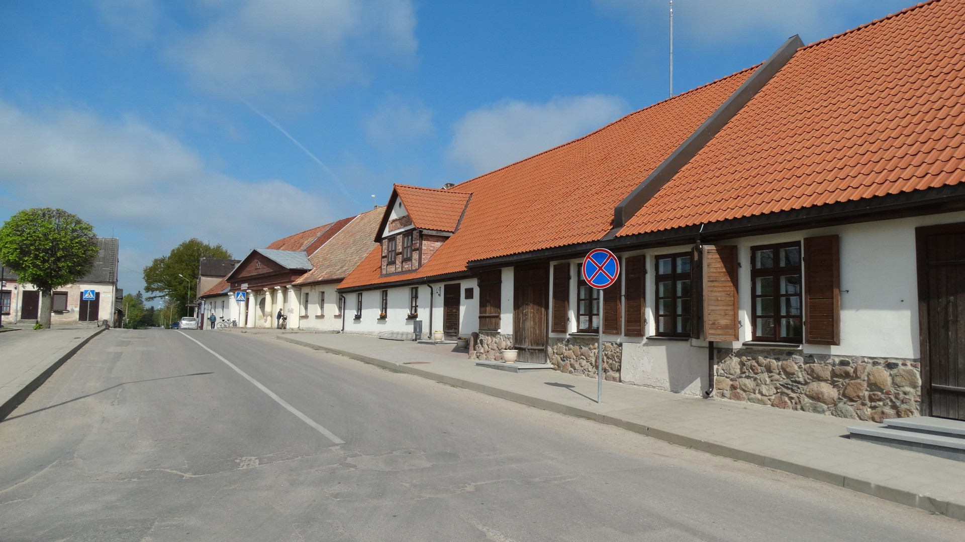 Former taverns, Žeimelis, Lithuania